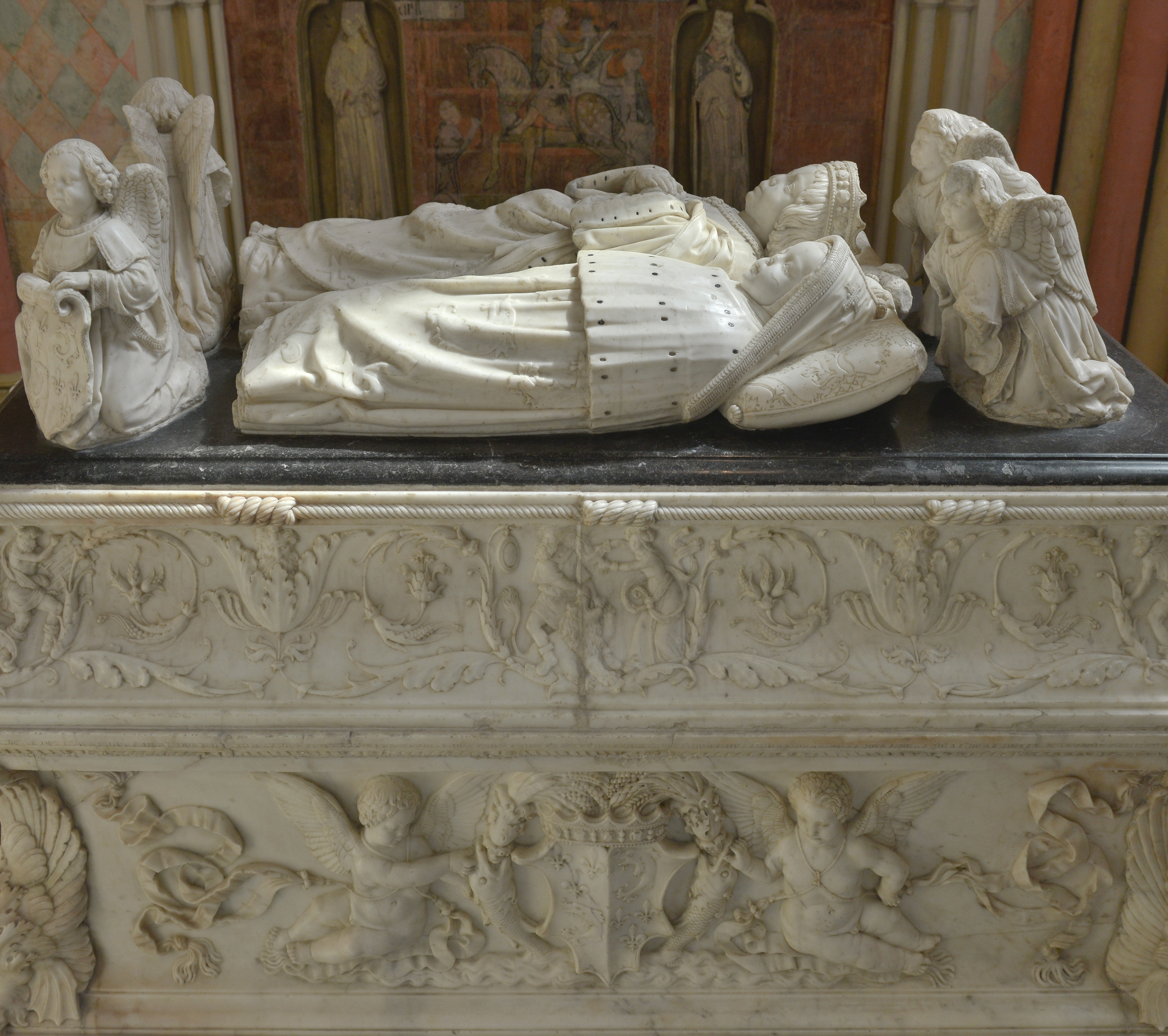 The tomb of the children of Charles VIII and Anne of Brittany, who died as infants in the Tours Cathedral. This tomb, in Carrara marble, made by Girolamo da Fiesole. in France